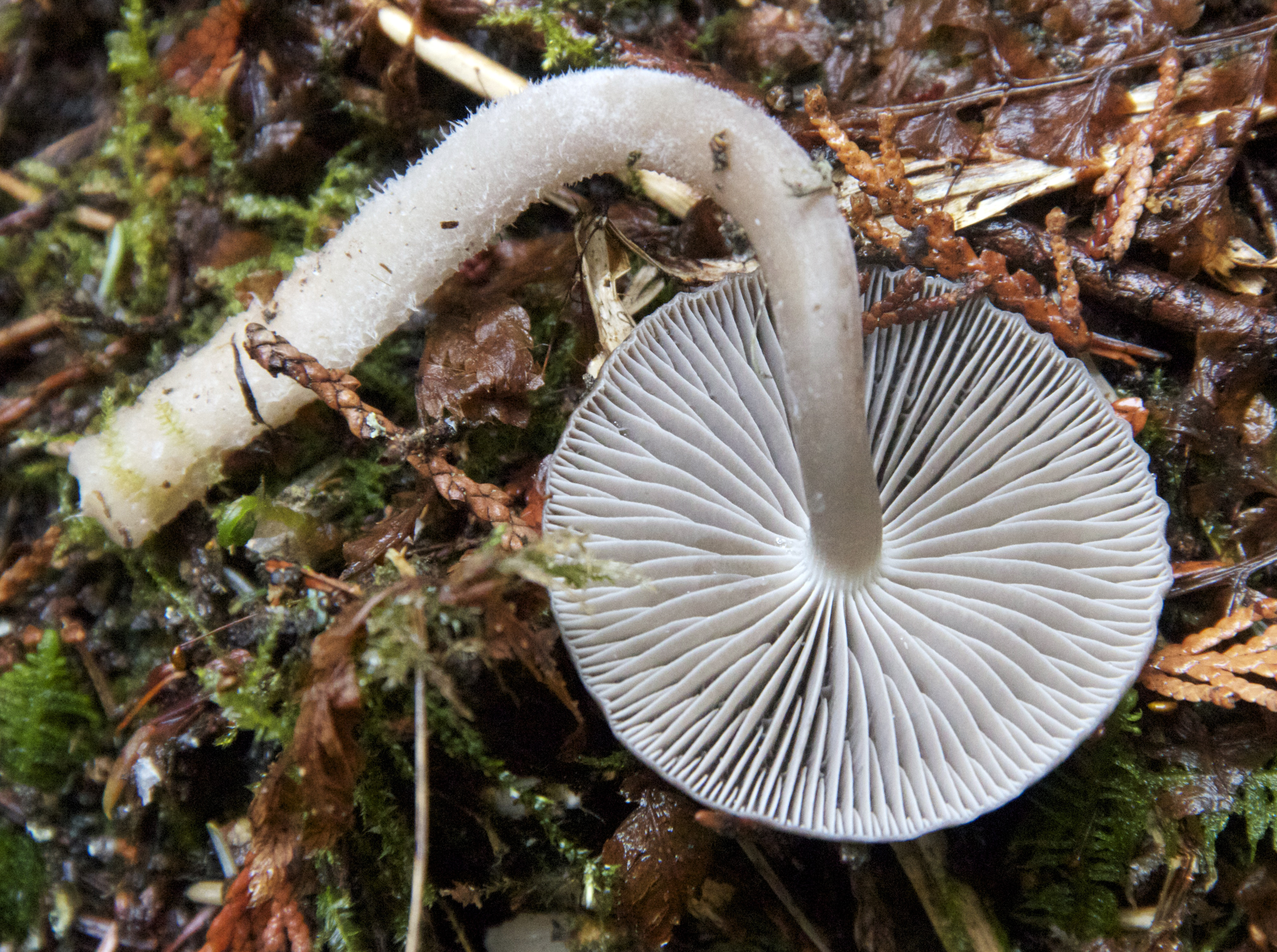 Gills of the mushroom Mycena overholtsii A.H.Sm. & Solheim. Specimen photographed in Revelstoke, British Columbia, Canada, in an old-growth cedar inland rainforest.